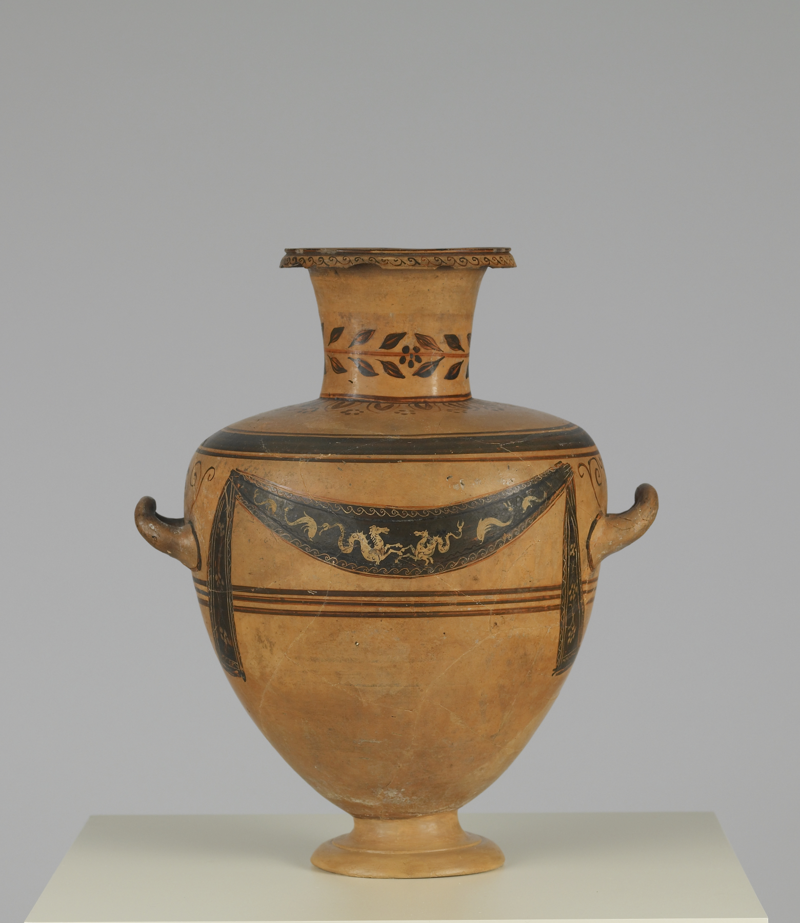 Hadra vases are named for a cemetery in Hellenistic Alexandria, where such vessels held the ashes of the dead. Though shaped like an Athenian "hydria," or water jug, its sparse decoration suggests inspiration from Macedonia, where metal "hydriae" draped with gold wreaths were deposited in royal tombs. The Ptolemaic rulers of Egypt after Alexander the Great's conquest were themselves Macedonians and may have inspired this custom.